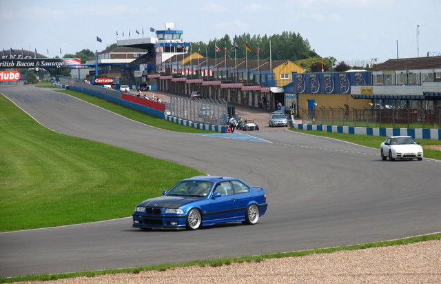 The Pits Track day at Donington Park, July 2005.